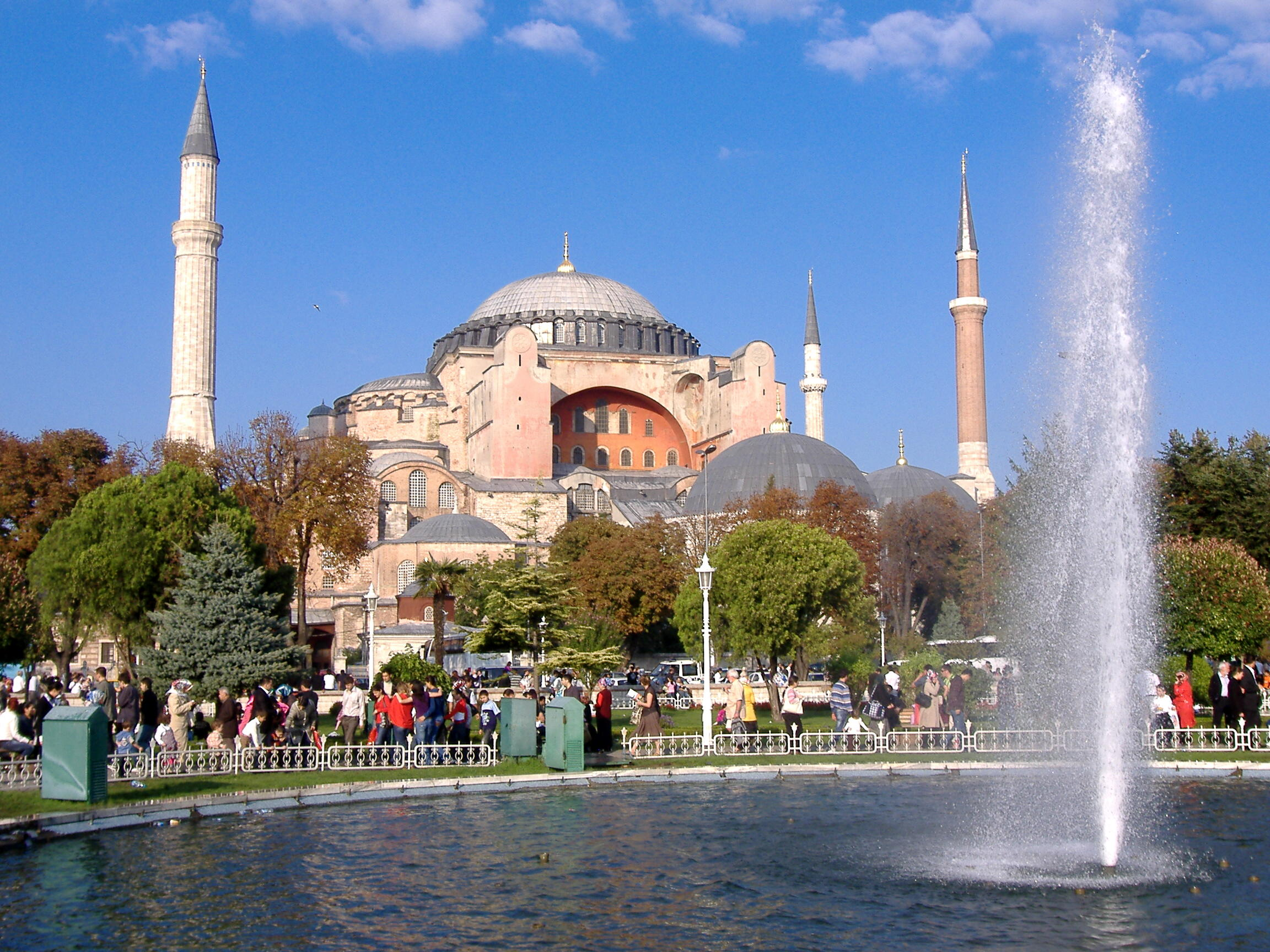 Hagia Sophia - Istanbul